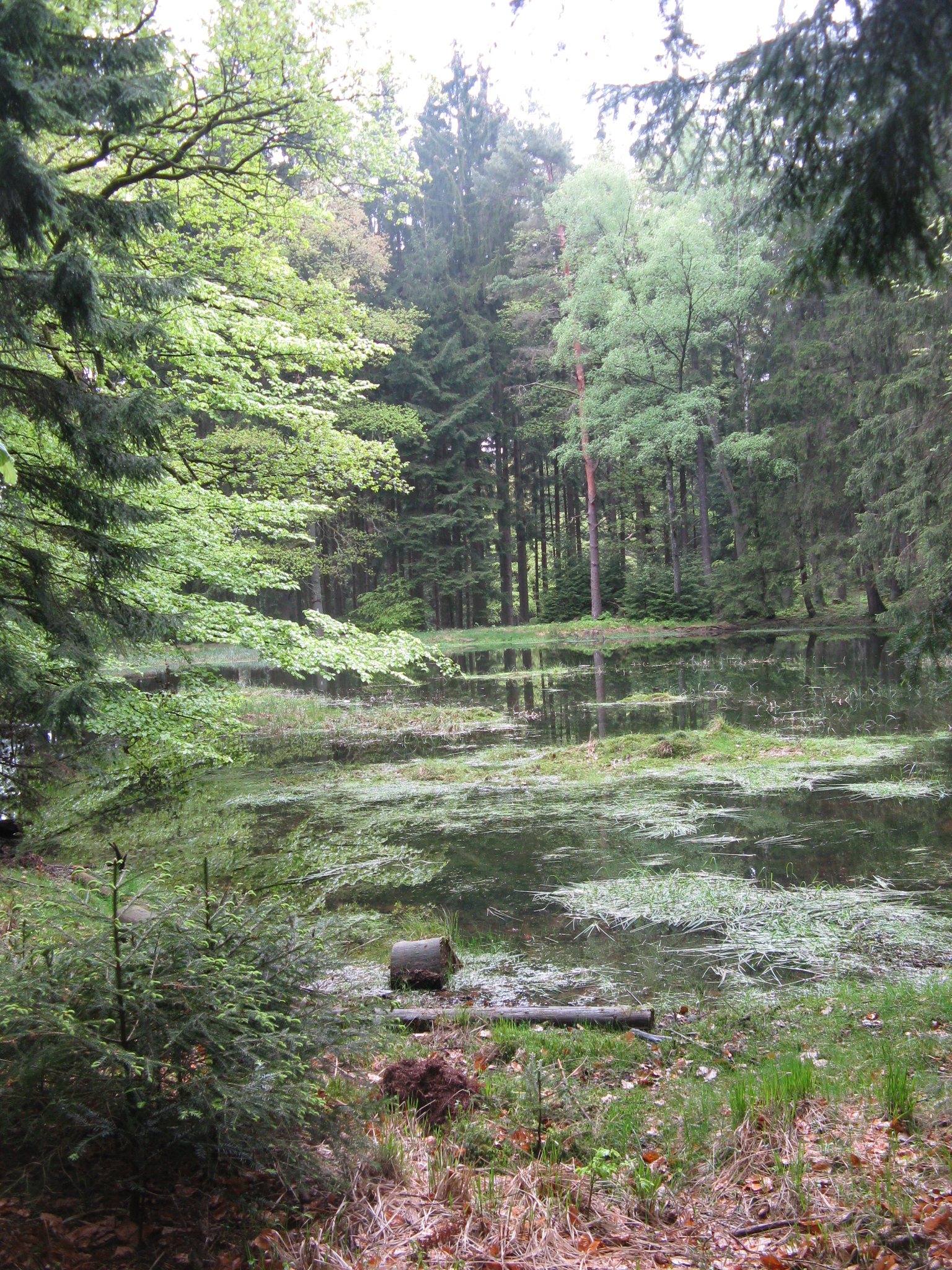 Sölchesweiher (Spessart/Hessen, Germany)